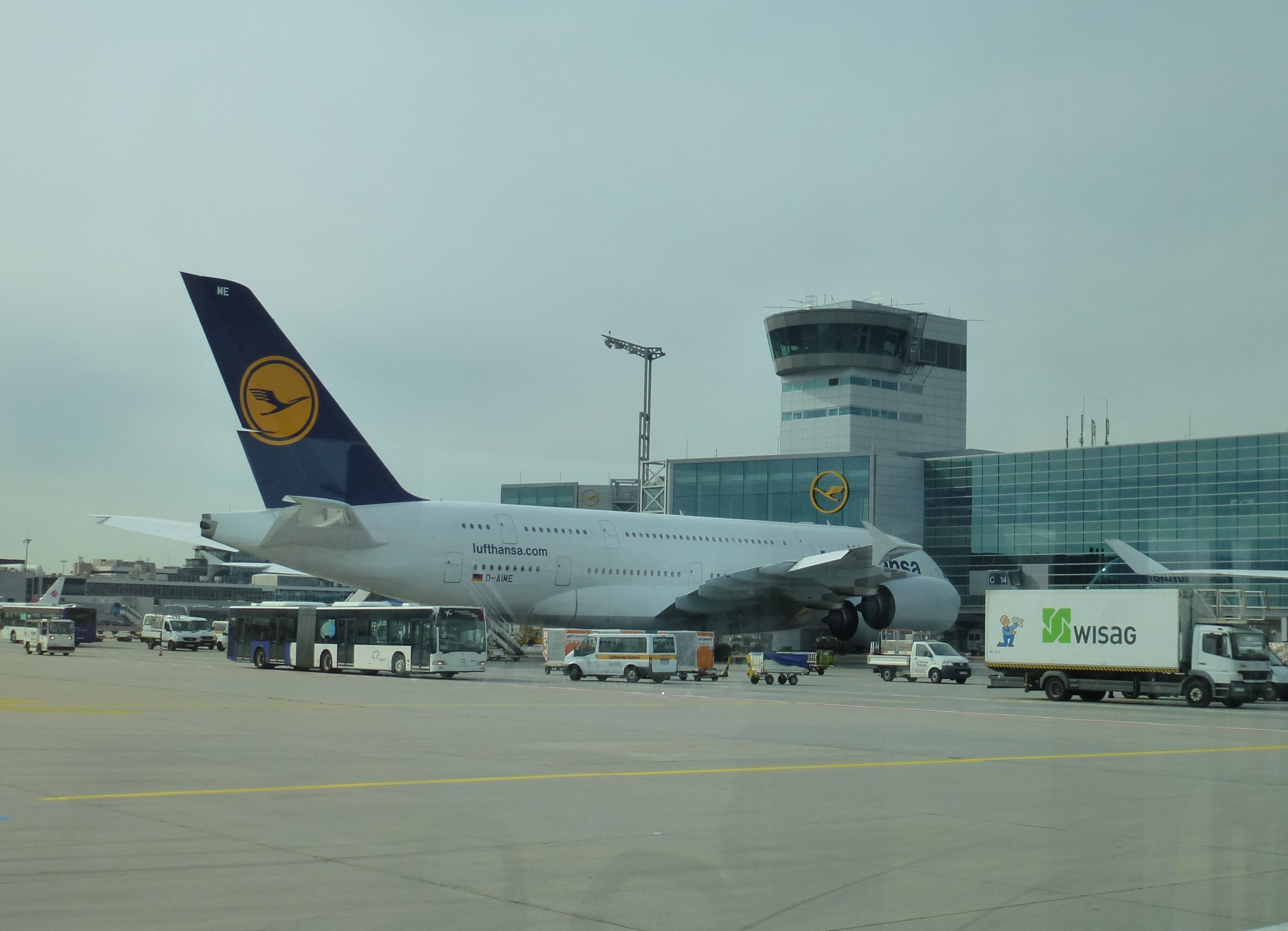 LH Airbus A380-800 D-AIME - Johannesburg - FRA airport, parking position Gate C 14 in September 2012